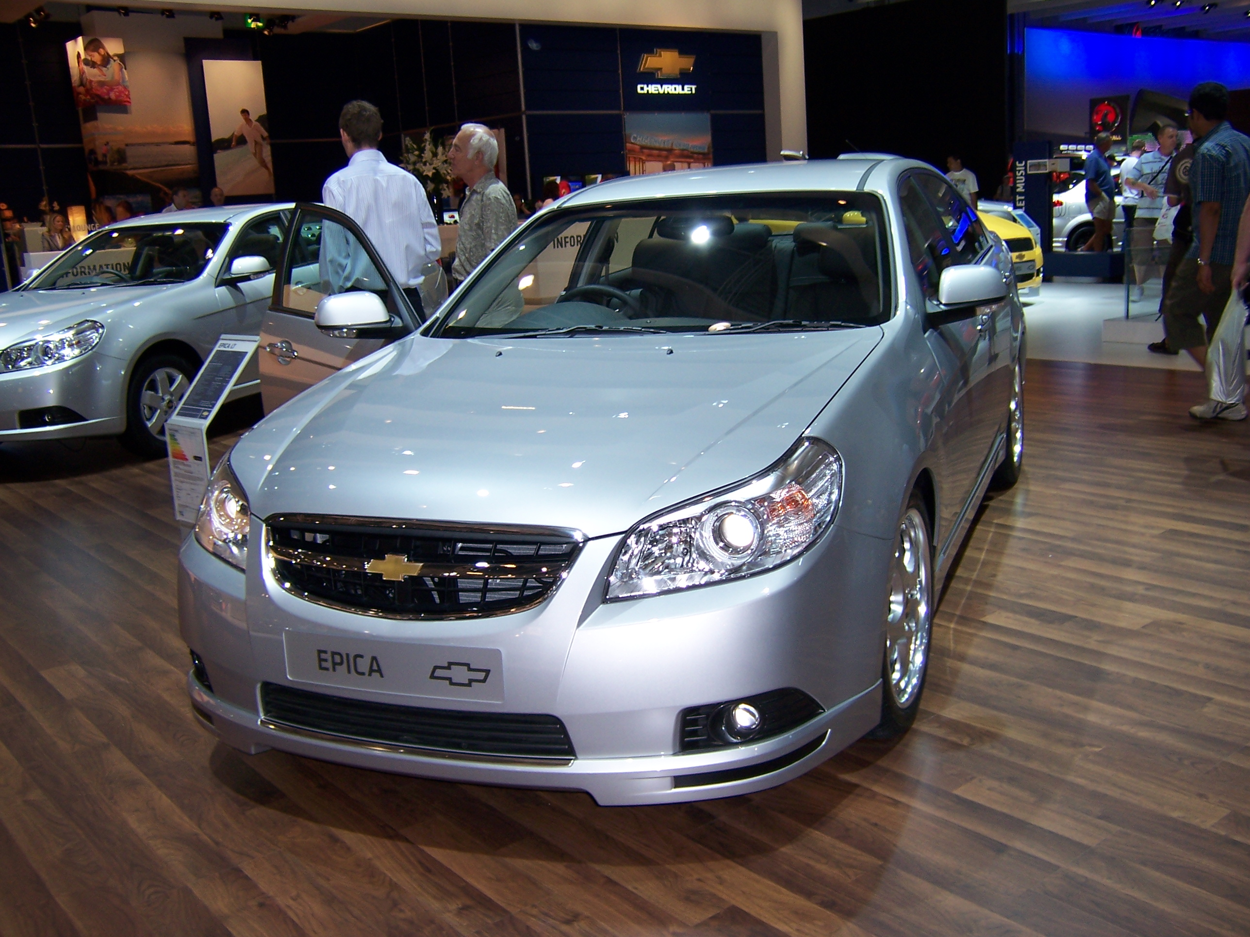 Chevrolet Epica